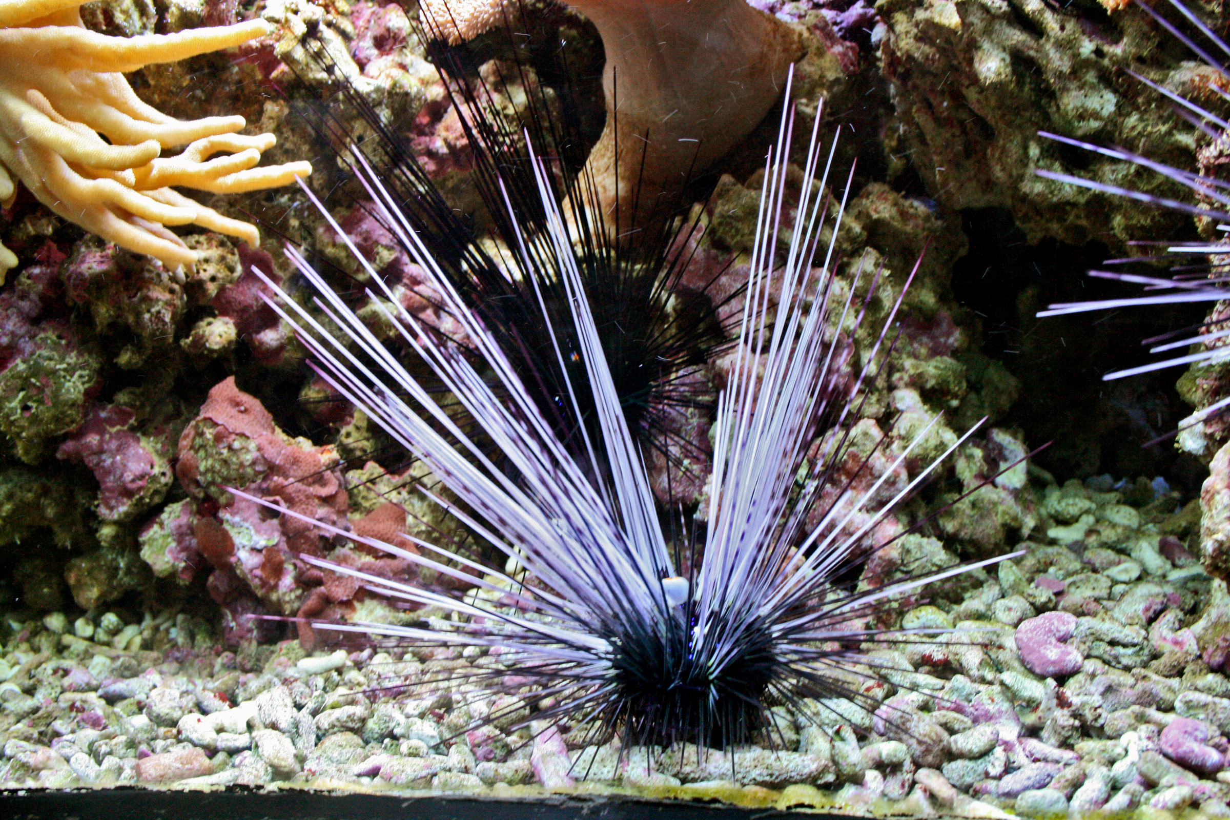 Diadema setosum in Prague sea aquarium, Czech Republic Česky: Ježovka štětinatá (Diadema setosum) v pražském mořském akváriu Mořský svět v Holešovicích